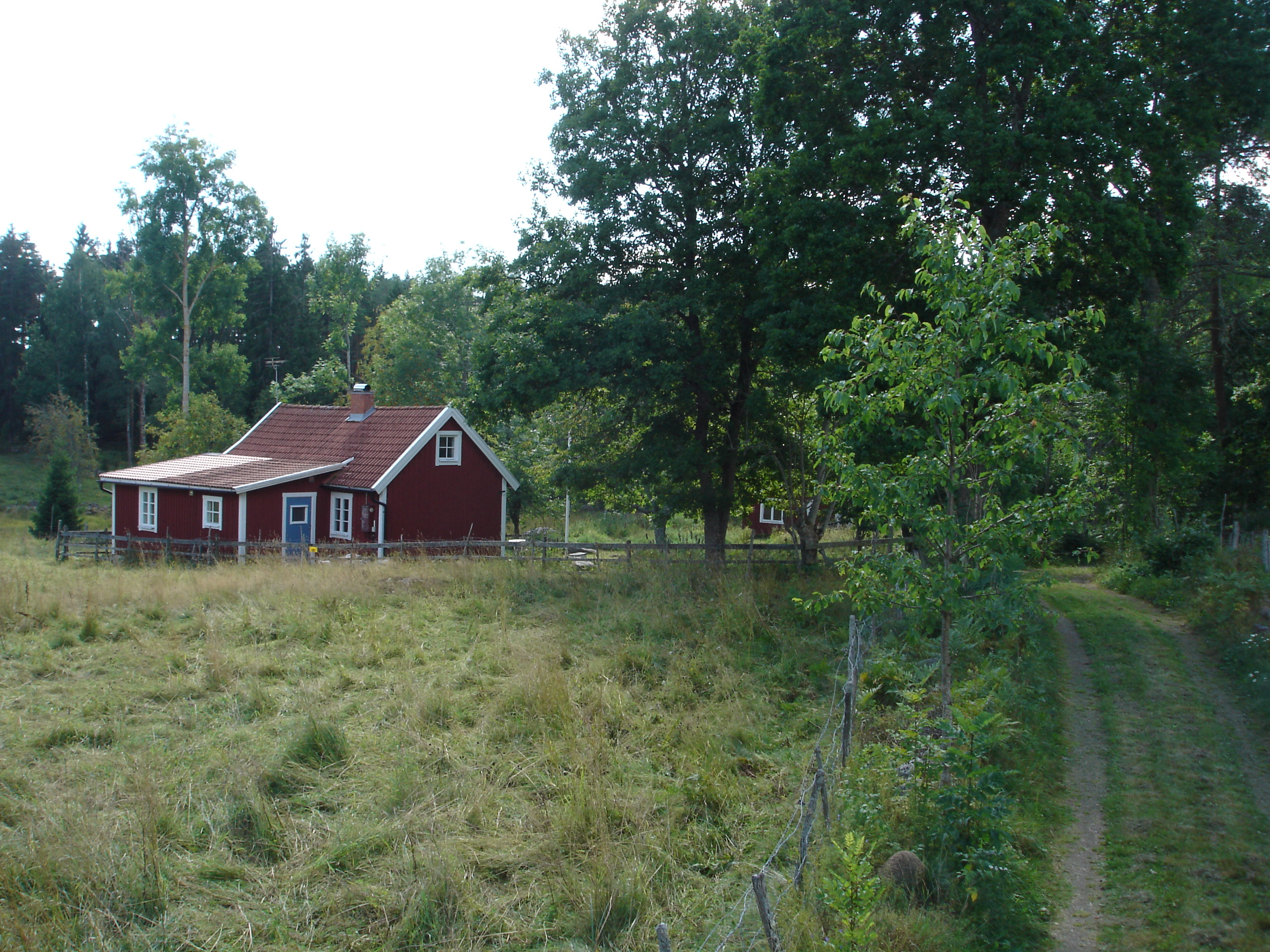 This is the south-east view of the house Fallhult Nymåla.